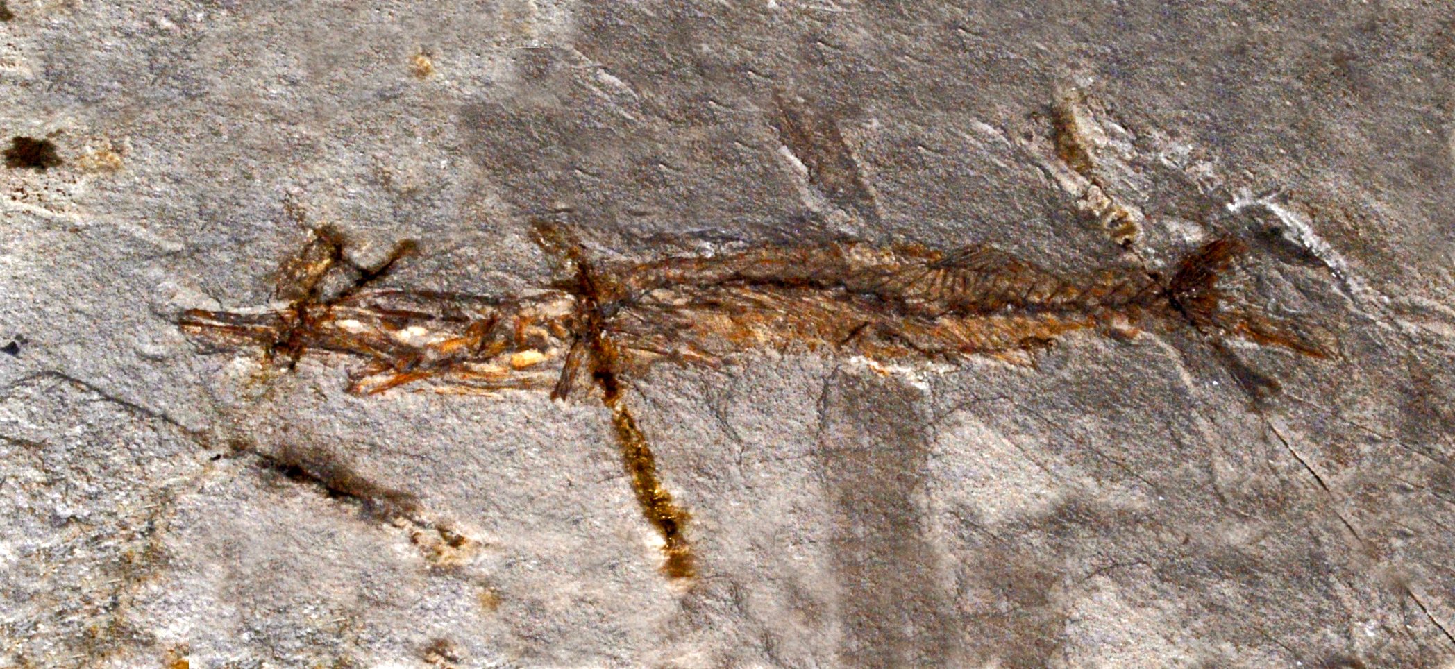 Fossil of Rhamphognathus paralepoides from Monte Bolca, on display at Museo Geologico G. Cappellini, Bologna